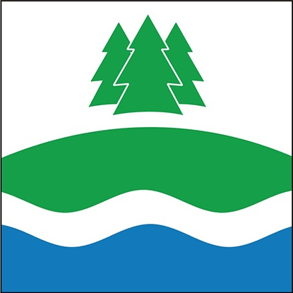 Flag of Rõuge Parish (2017-)